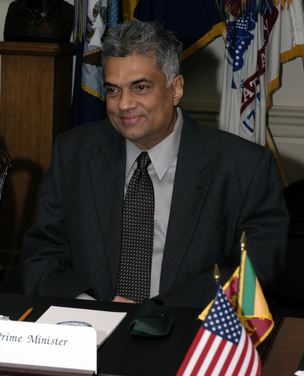 Cropped image of Ranil Wickremasinghe.